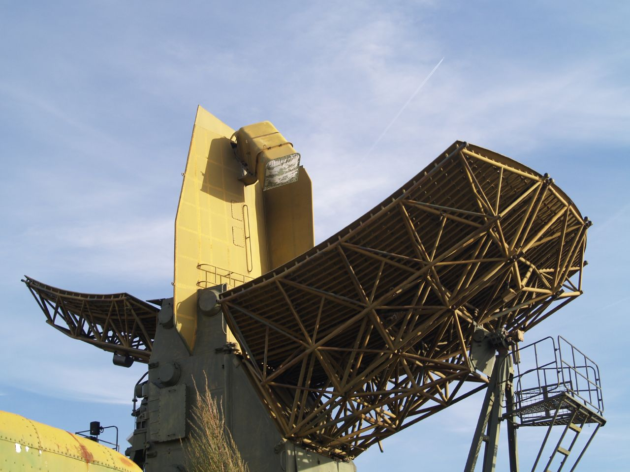 The fire control radar of the S-200 system, the 5N62 (NATO: Square Pair) CW H band radar has a range is 270 km, displayed in the Army History Museum and Park in Kecel, Hungary.